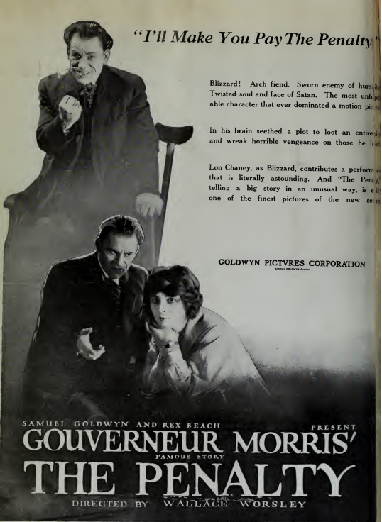 Advertisement with Lon Chaney in the film The Penalty (1920), directed by Wallace Worsley.